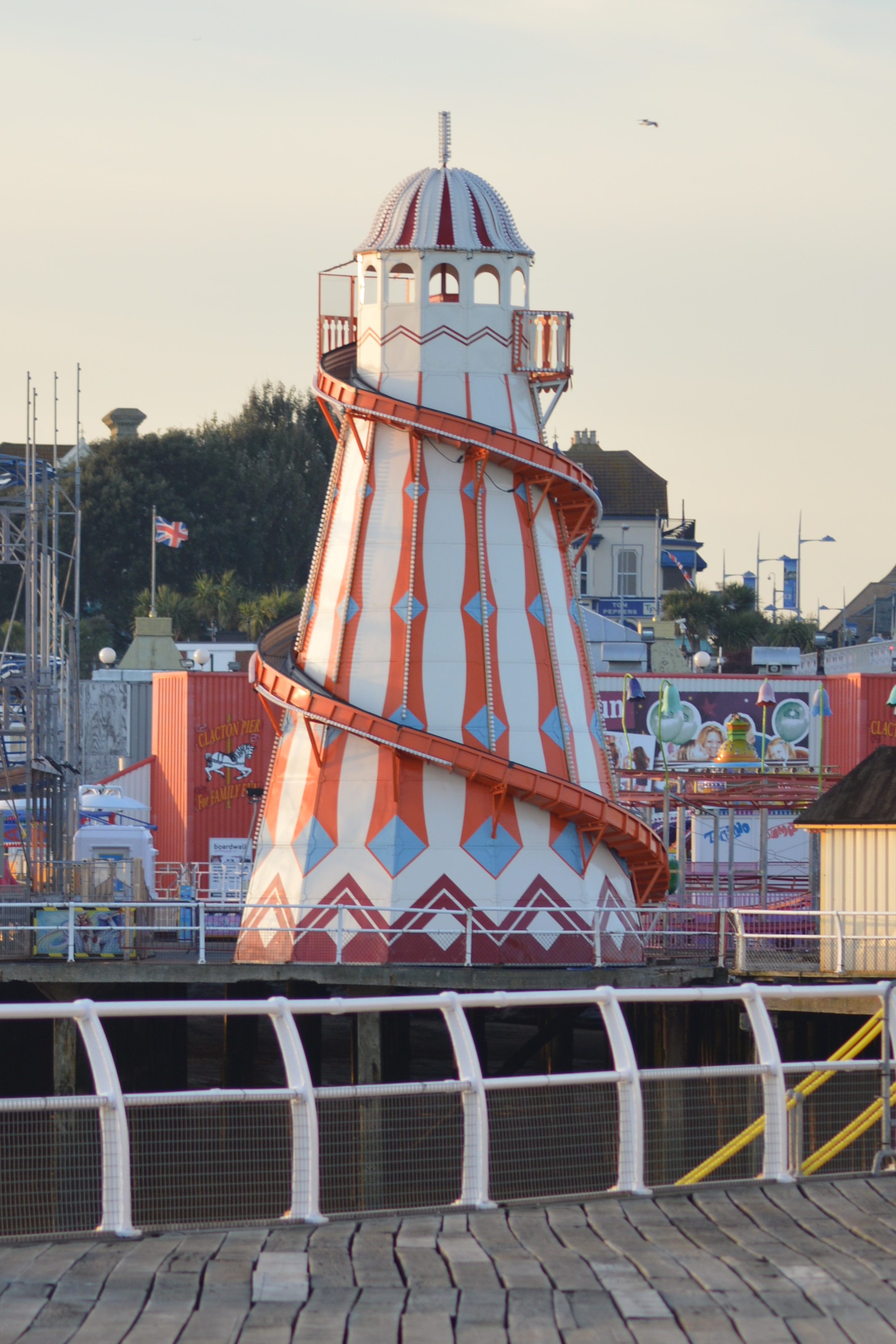 Clacton Pier helter-skelter. The 75-year-old helter-skelter collapsed in a storm later in the month on 28 October 2013.[1]